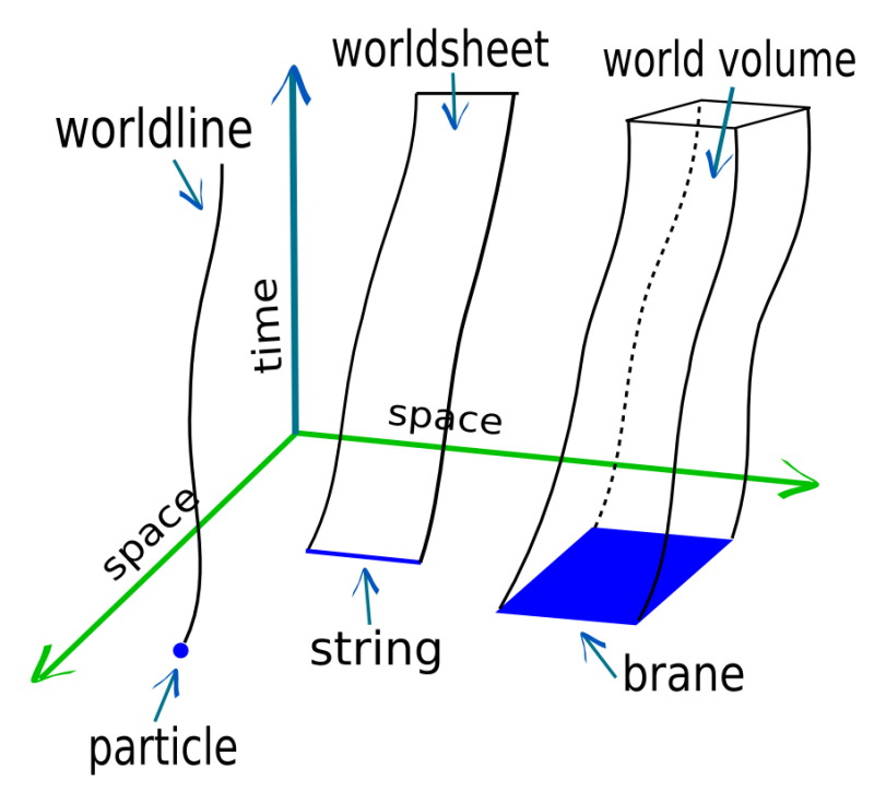 I made this with Inkscape.